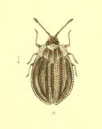 Acalypta nigrina